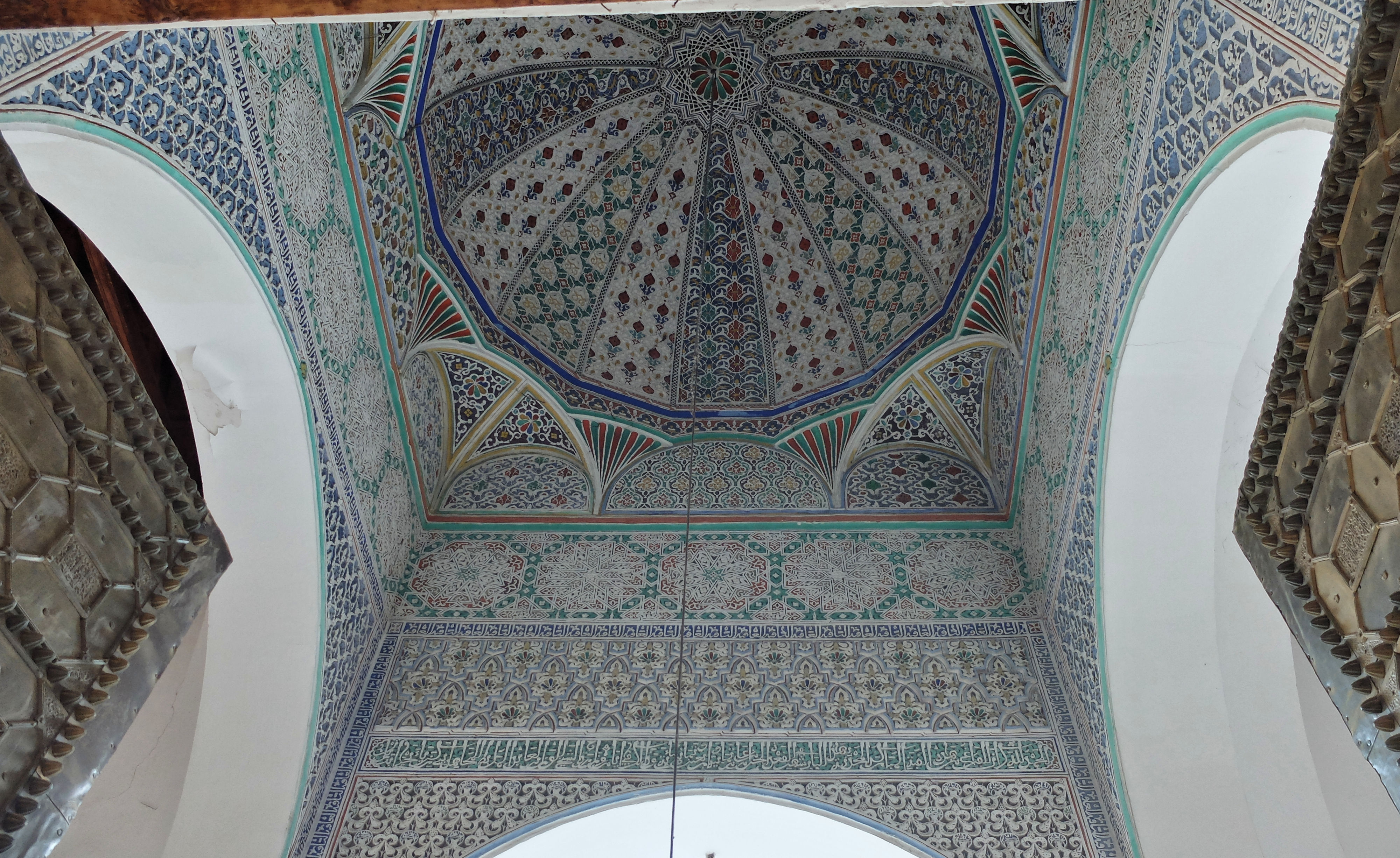 Dome above the vestibule of Bab al-Ward (Gate of the Roses), the main northern entrance to the Qarawiyyin Mosque. This entrance leads directly into the mosque's courtyard.